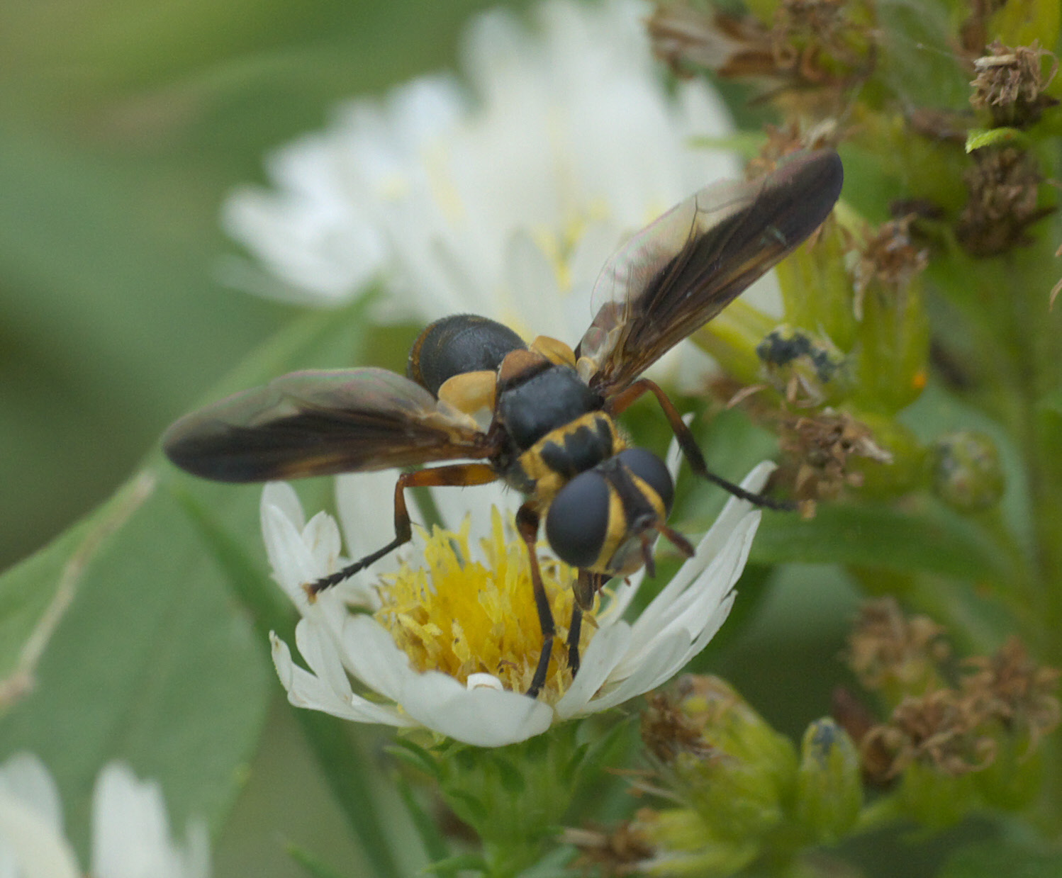 Trichopoda plumipes, Genus: Feather-legged Flies, ID Confidence: 87